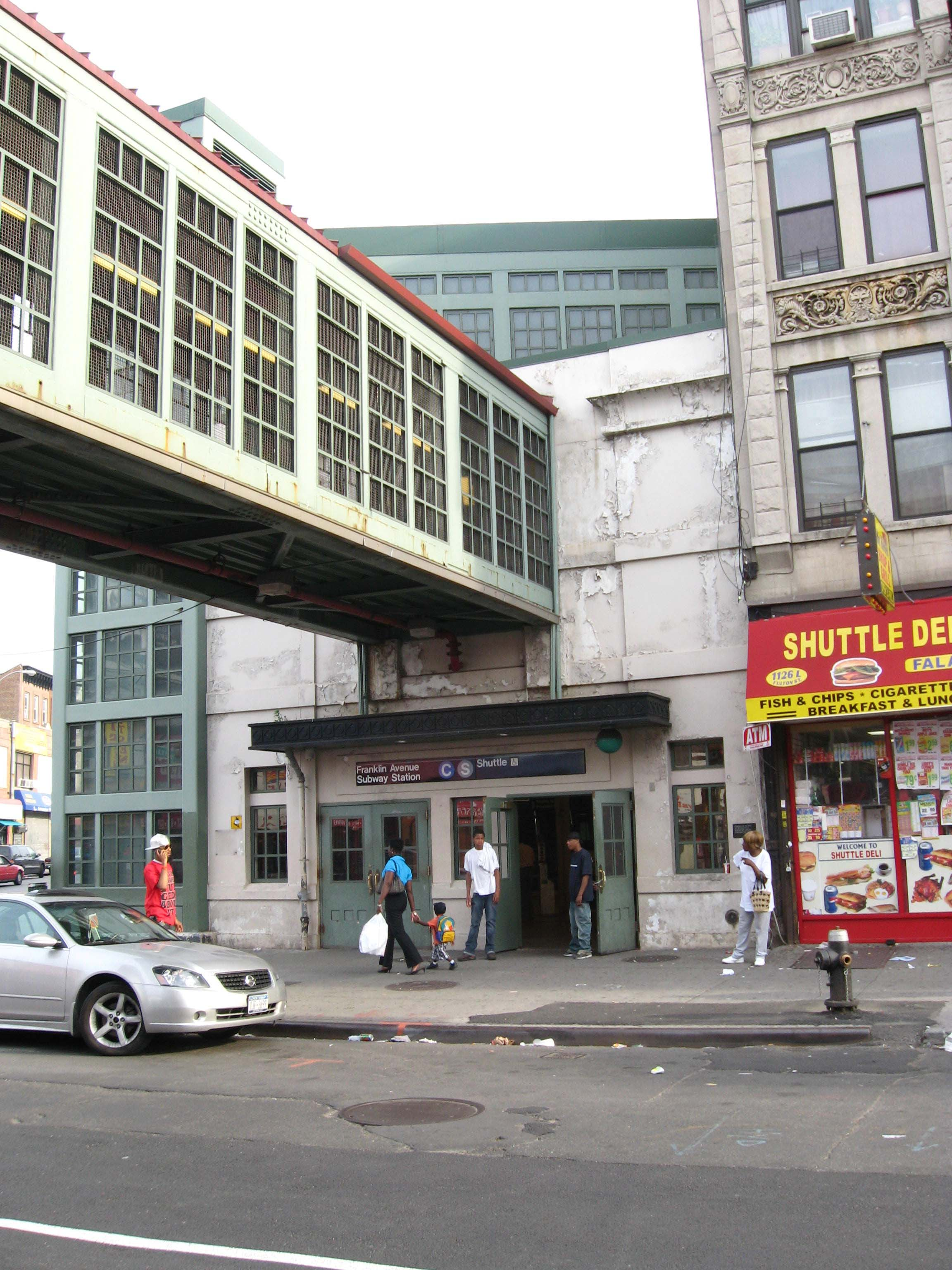 Looking south at Franklin Avenue (New York City Subway) on a partly cloudy afternoon.